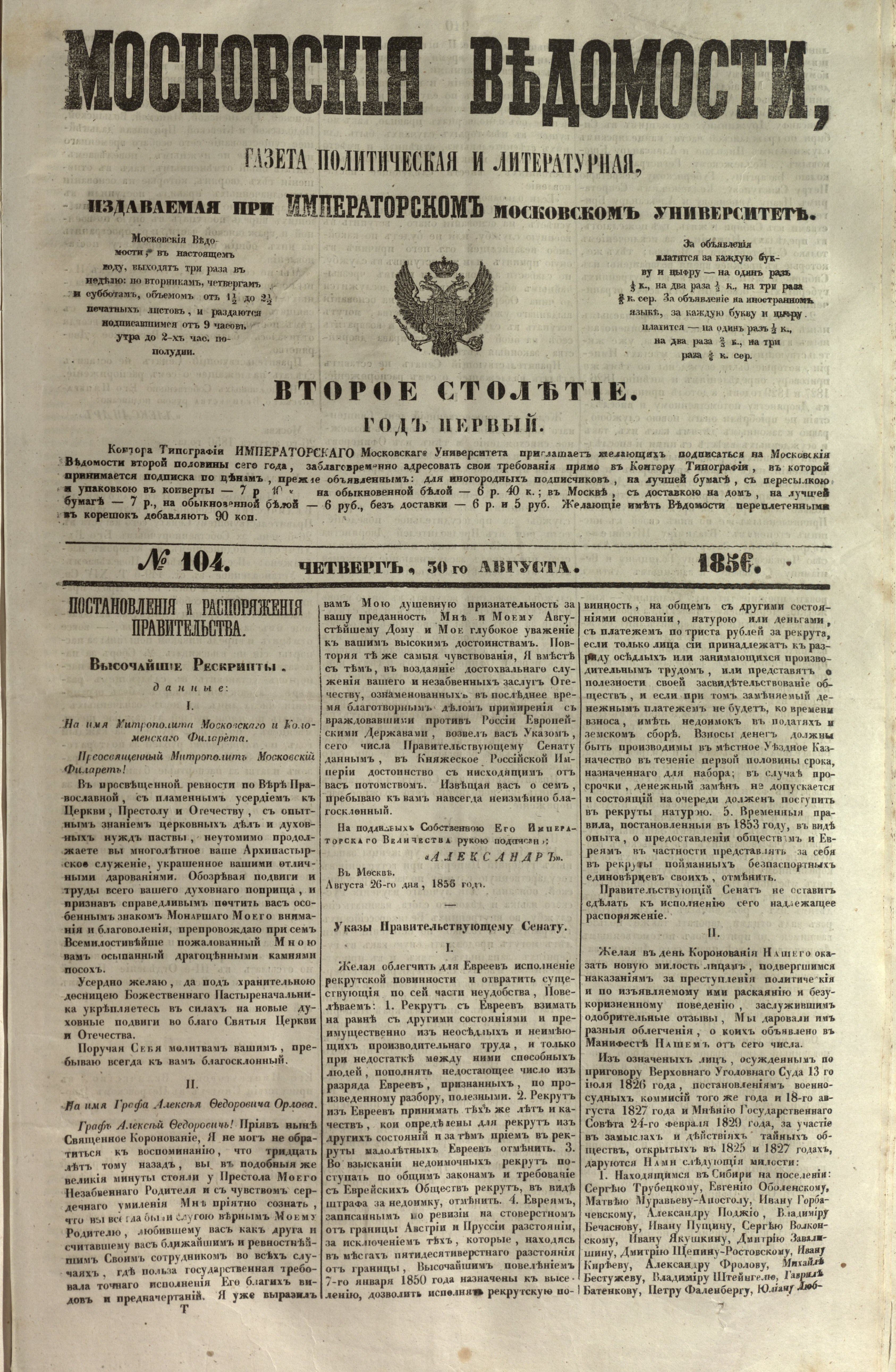 Страница из газеты "Московские ведомости" за 1856 г., где упоминается митрополит Филарет